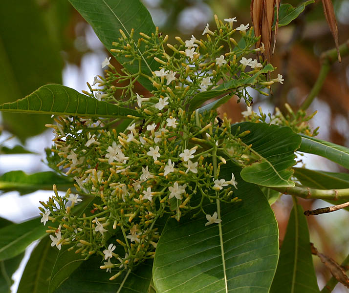 Batino, devil-tree or hard alstonia Alstonia macrophylla in Hyderabad, India.